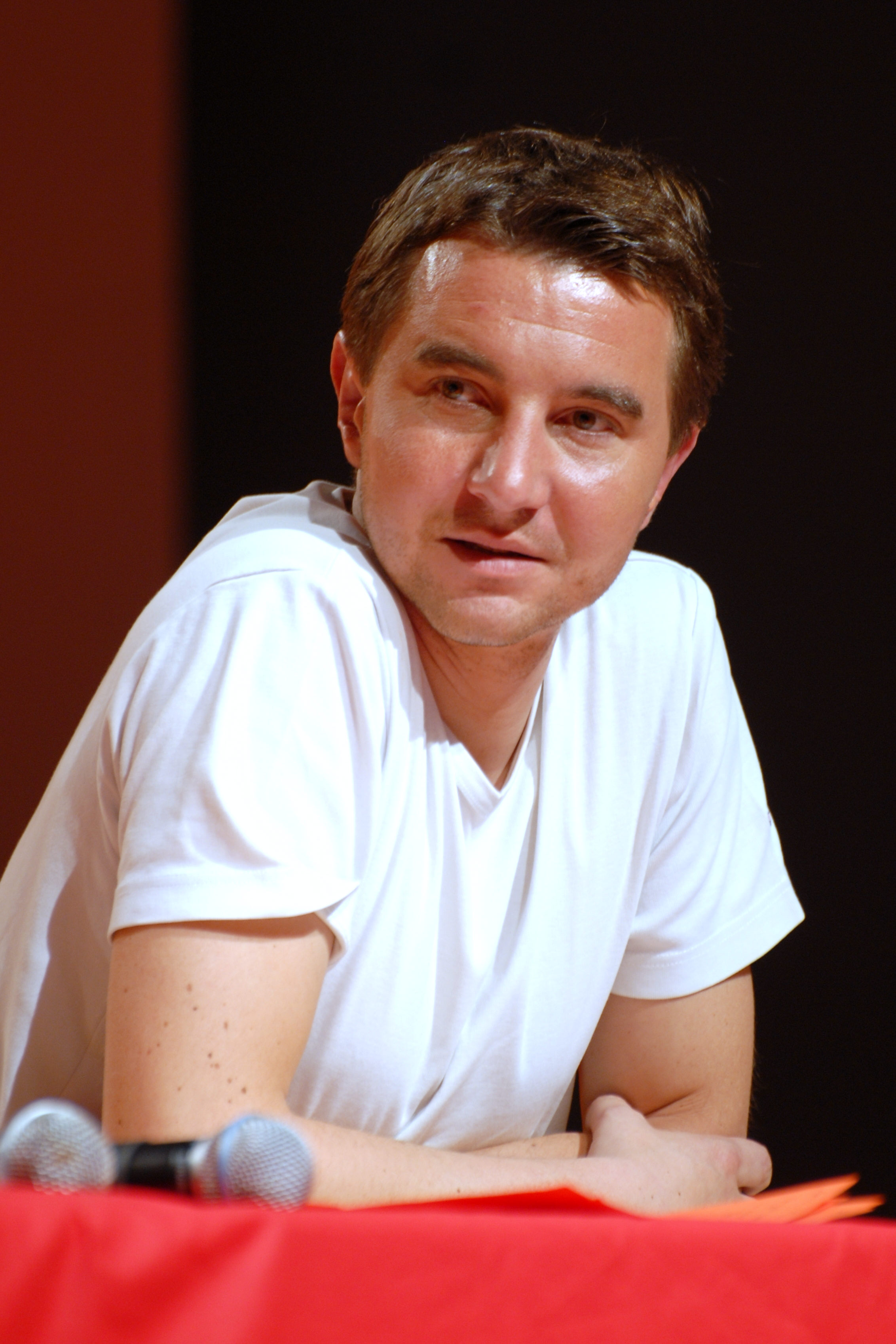 Olivier Besancenot during his meeting in Toulouse on April, 20th 2007 for the 2007 presidential election.